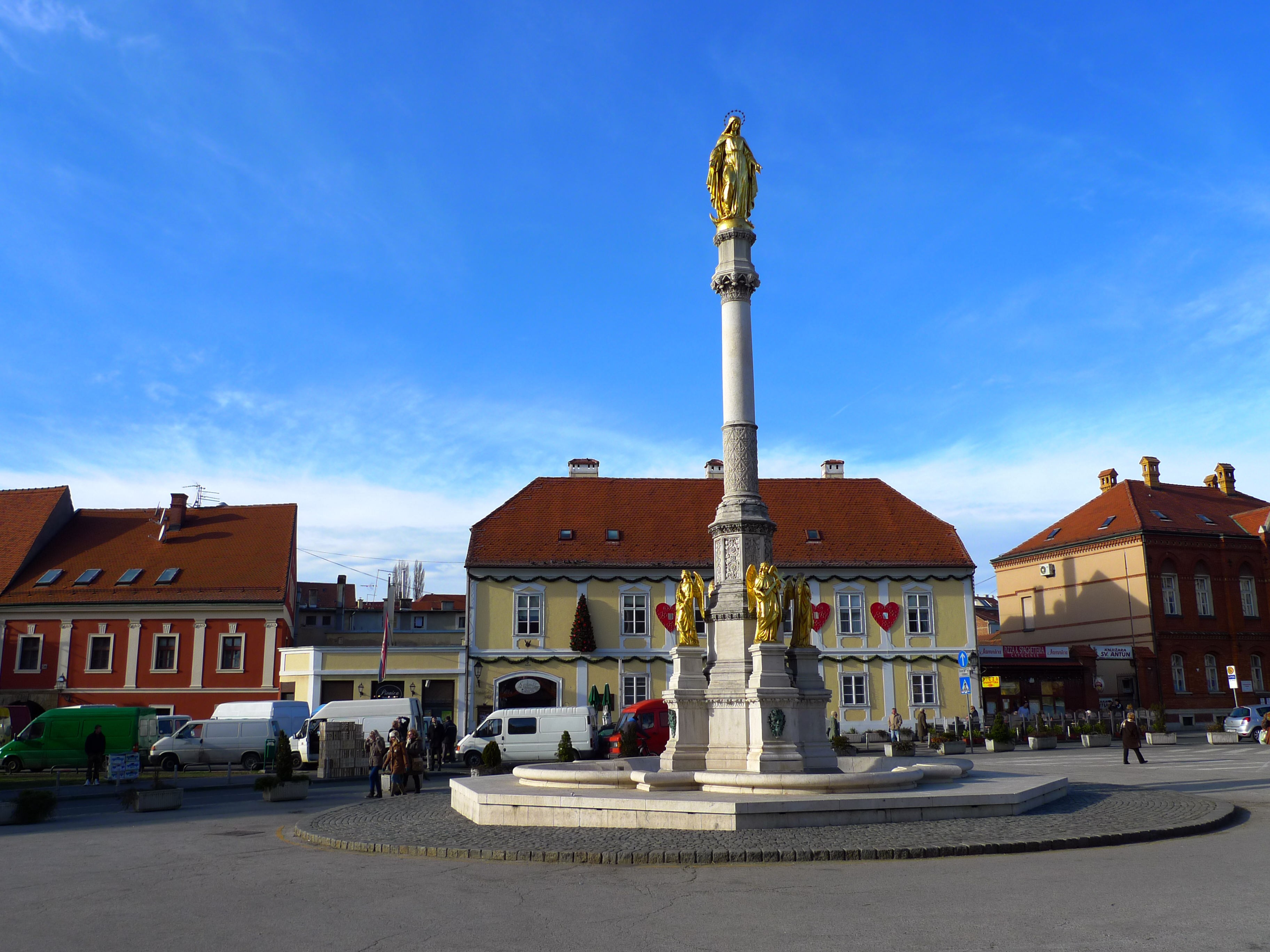 View towards the west at No. 5 Kaptol in Zagreb, Croatia.